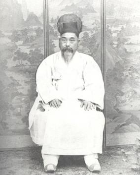 Prince Youngseon, grandson of Heungseondaewongun, Nephew of Kojong of Joseon